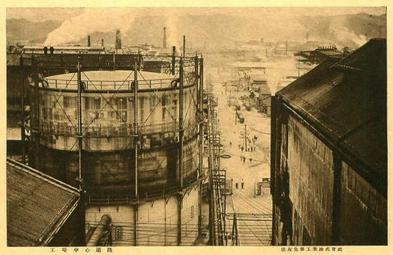 Sumitomo Chemical's Ehime plant in Niihama, Ehime pref., Japan.